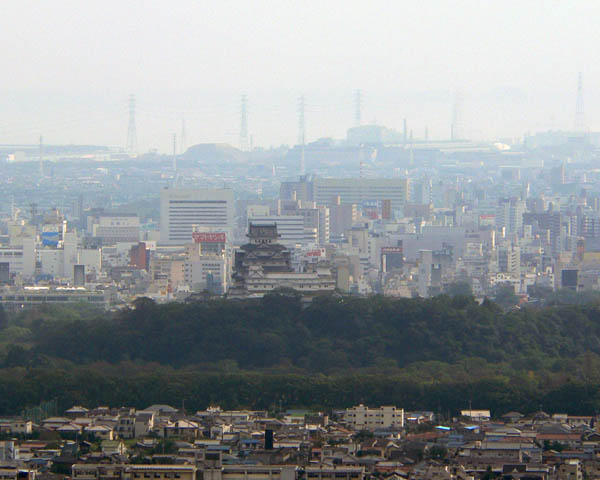 Himeji Castle seen from north